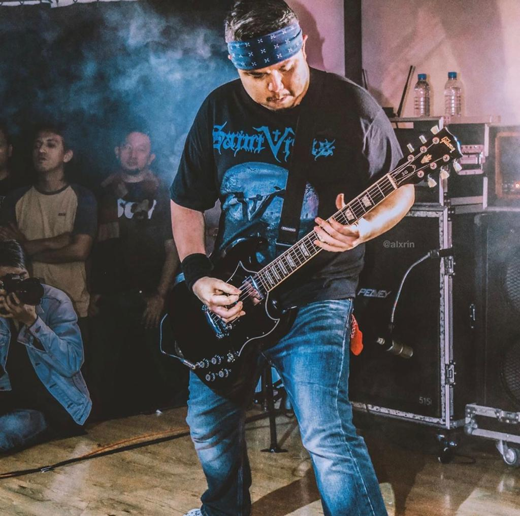 Photo of Ricky Siahaan performing with the band Seringai.